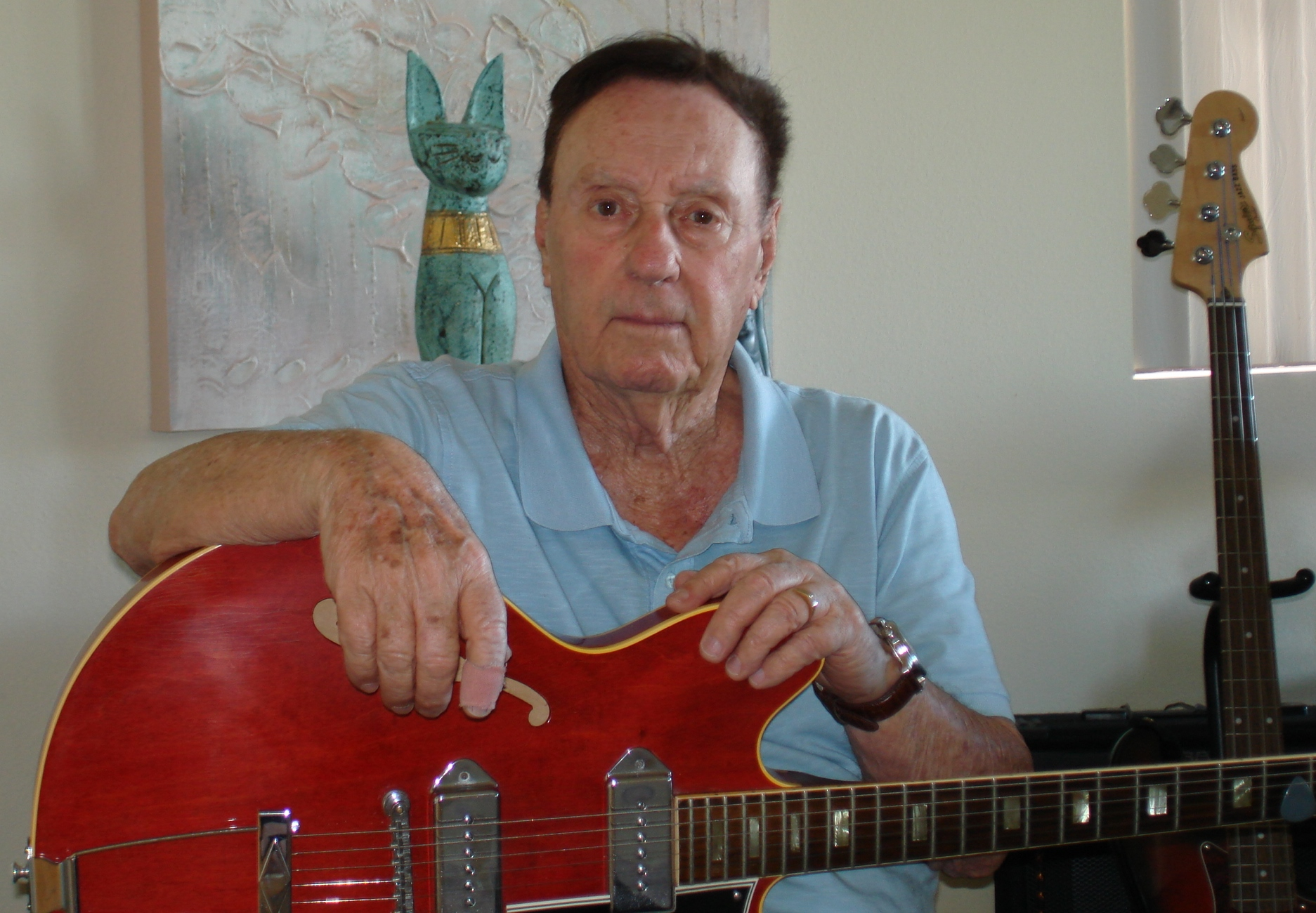 Portrait of Bill Pitman.